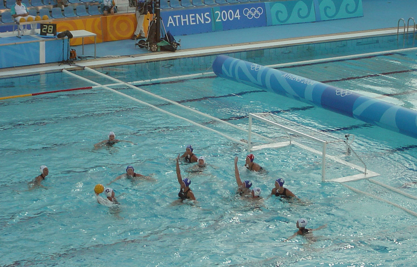 A 'man up' play showing 4-2 formation from the 2004 Athens Olympics